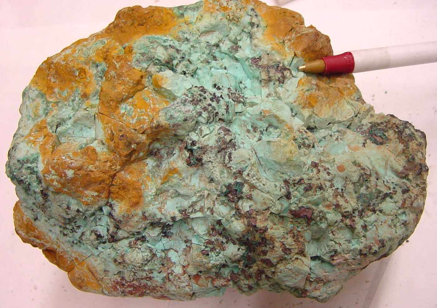 Cuprite (orange to red, pen for scale) - Mineral collection of Brigham Young University Department of Geology, Provo, Utah - BYU index 4-8003a, Cu2O